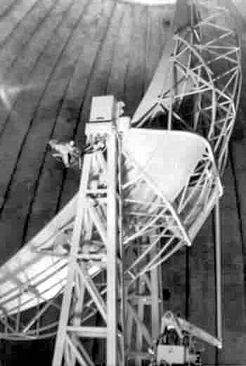 Avco AN/FPS-26 Radar (Shown inside radome)